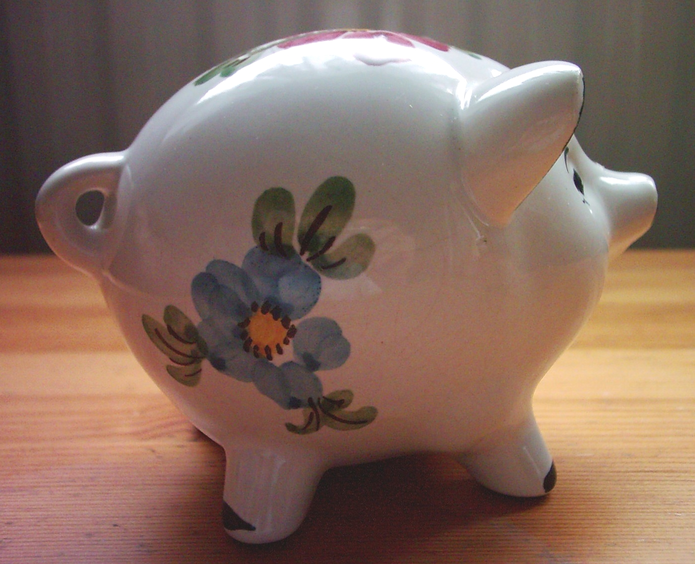 Piggy bank from German bank HASPA, around 1970.